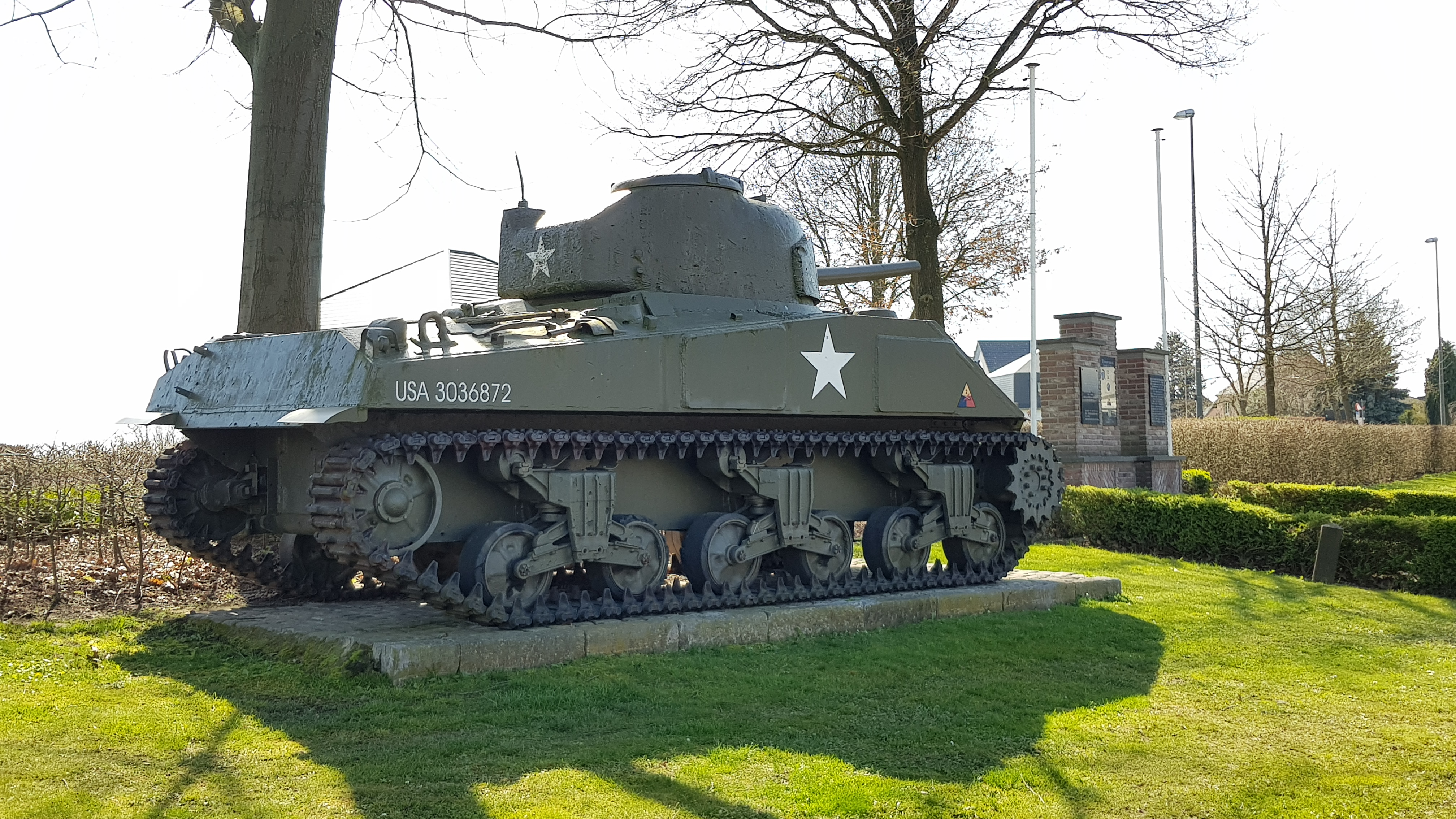 Tank memorial in Mopertingen, Bilzen, Belgium